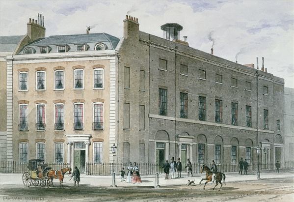 Engraving of Hanover Square Rooms in Hanover Square